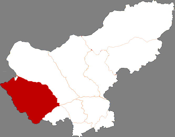 Locator map of Sonid Right Banner in Xilingol League, Inner Mongolia, China